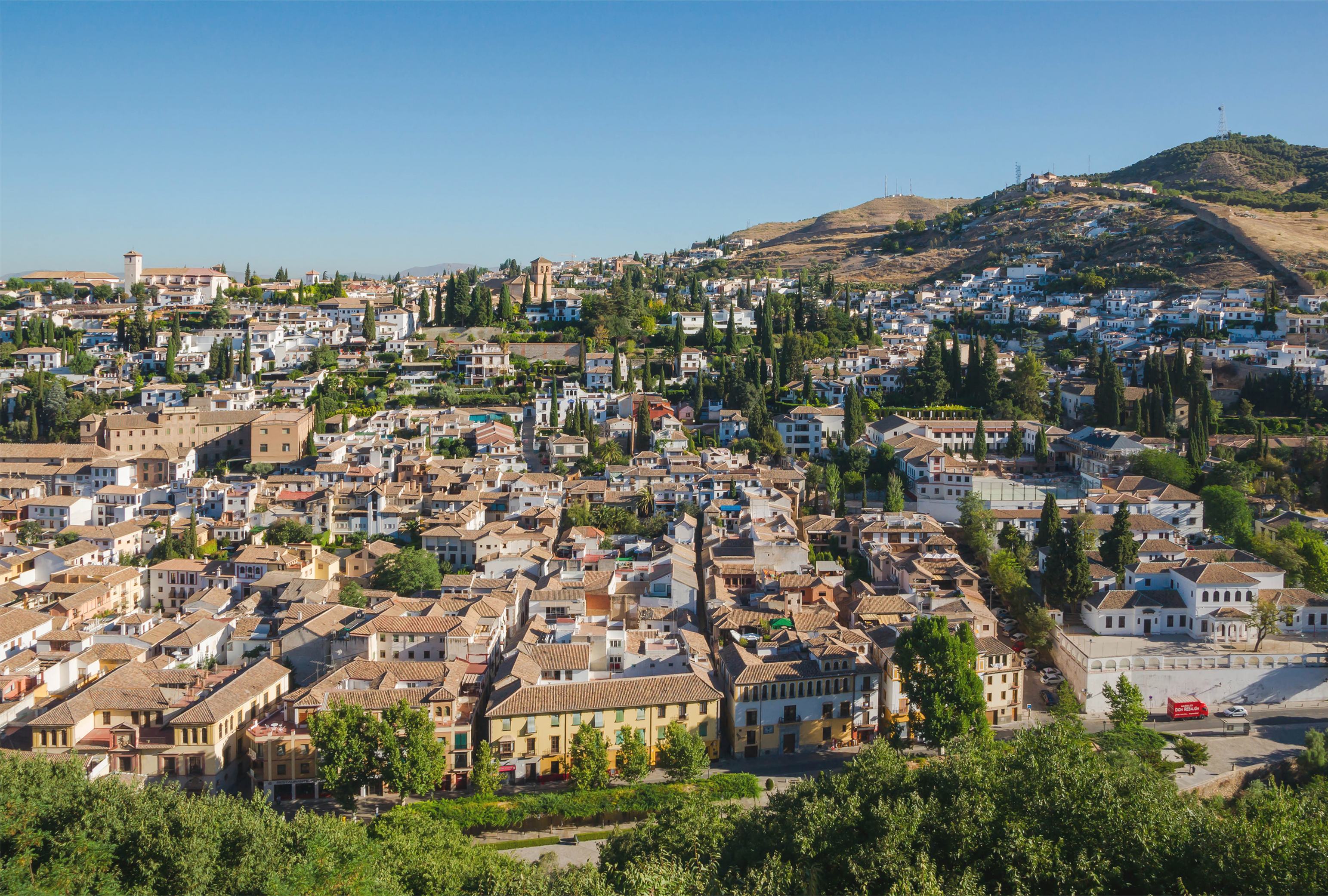 From Alhambra, the old neighborhood of Albayzin, from church San Nicolas to Nasrid Walls and Sacromonte. Granada, Spain.